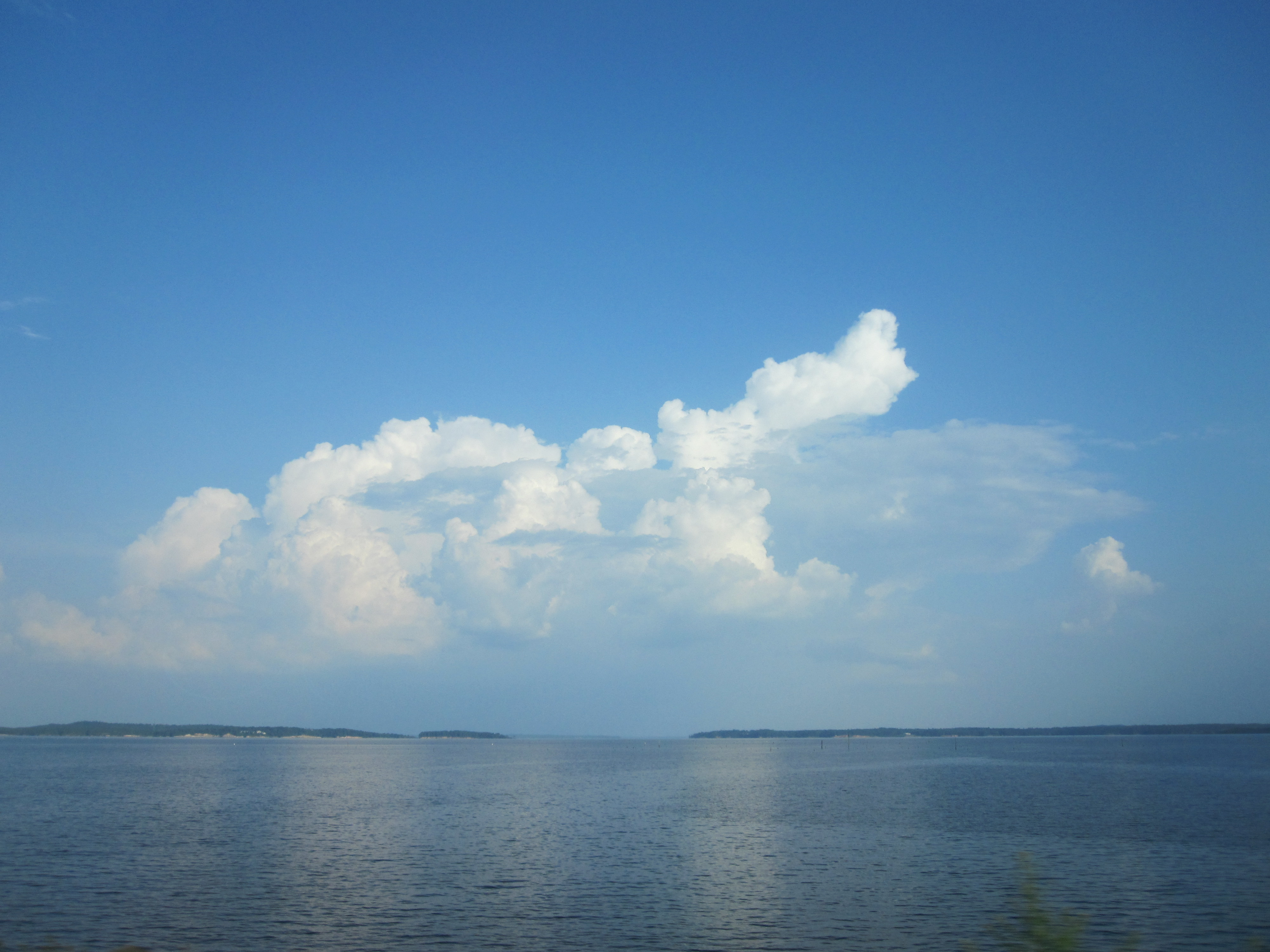 View of Toledo Bend on LA-TX border